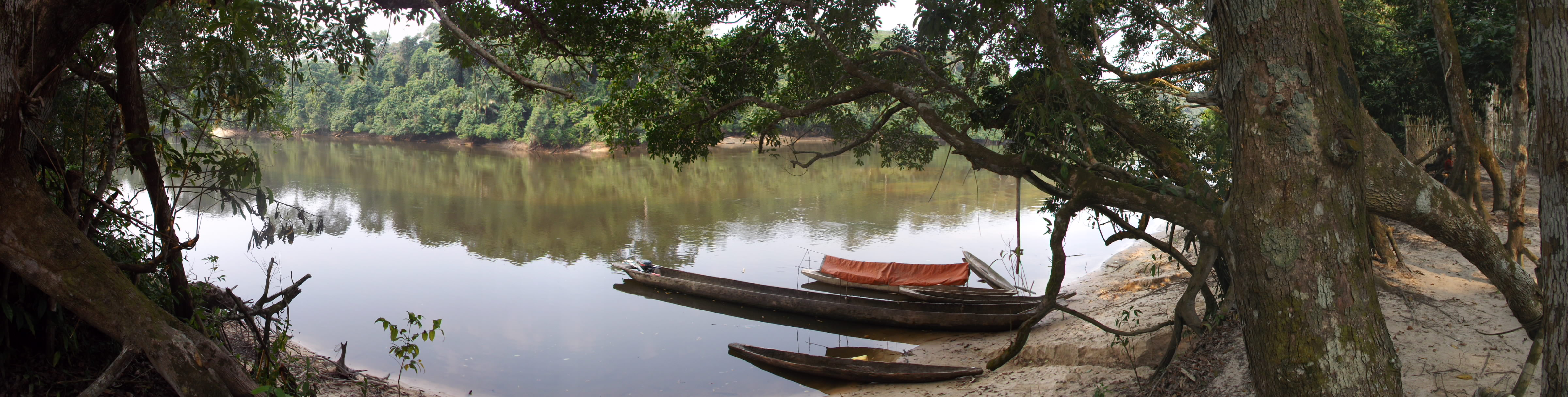 A panorama of the Lomami River at Katopa Camp, Democratic Republic of the Congo.